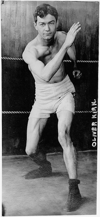 Oliver Kirk, American boxer and two-time Olympic gold medal winner. (original text)